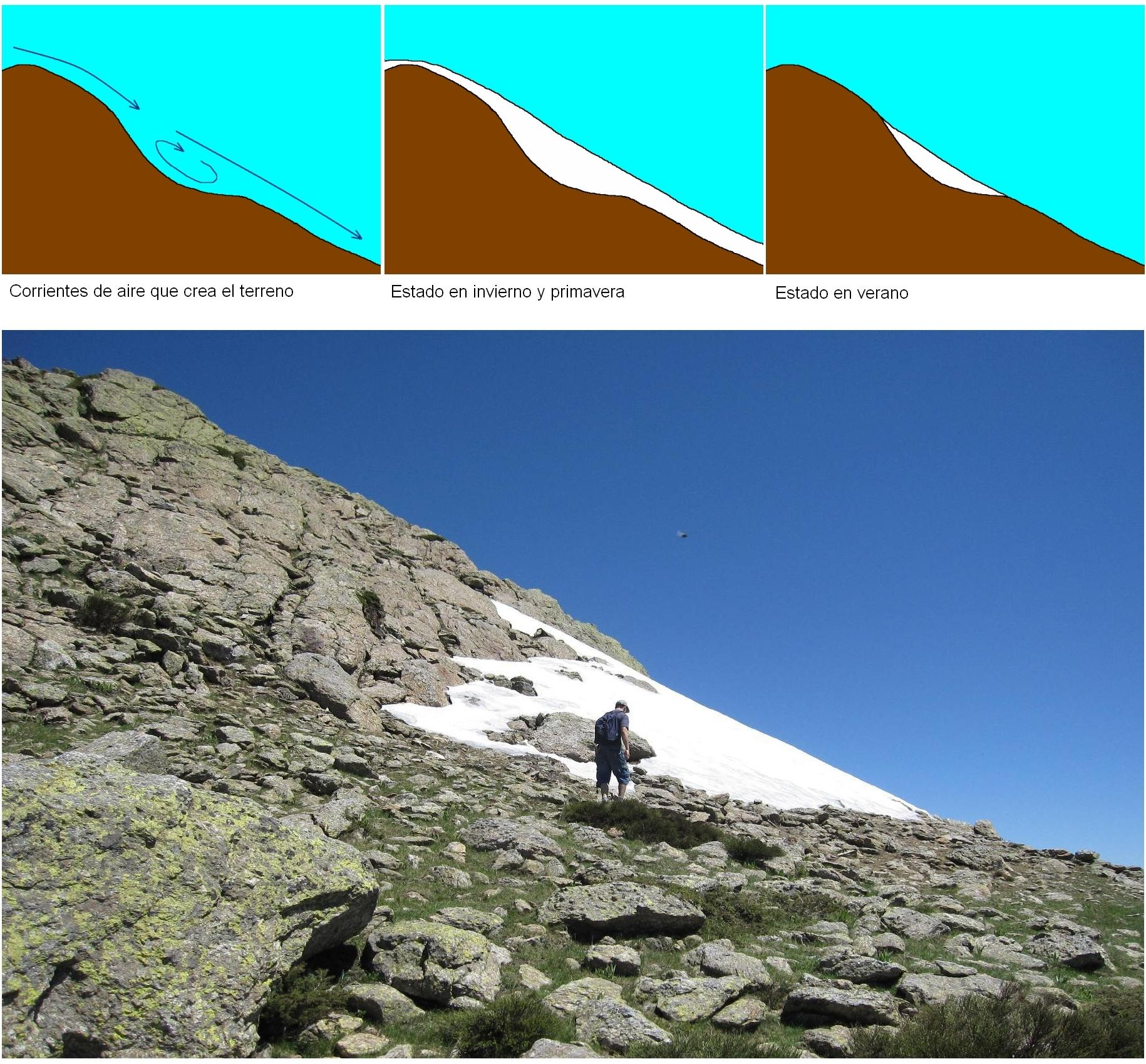 Draws of the formation of a névé.